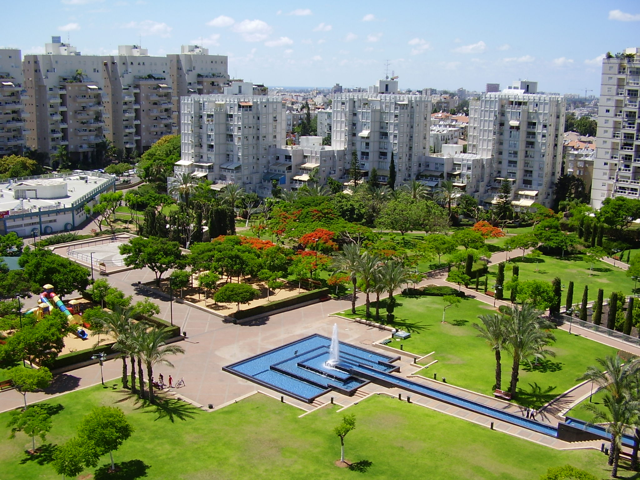 merom naveh park in ramat gan